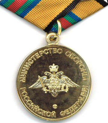 Reverse of the Medal "For Strengthening Military Cooperation"